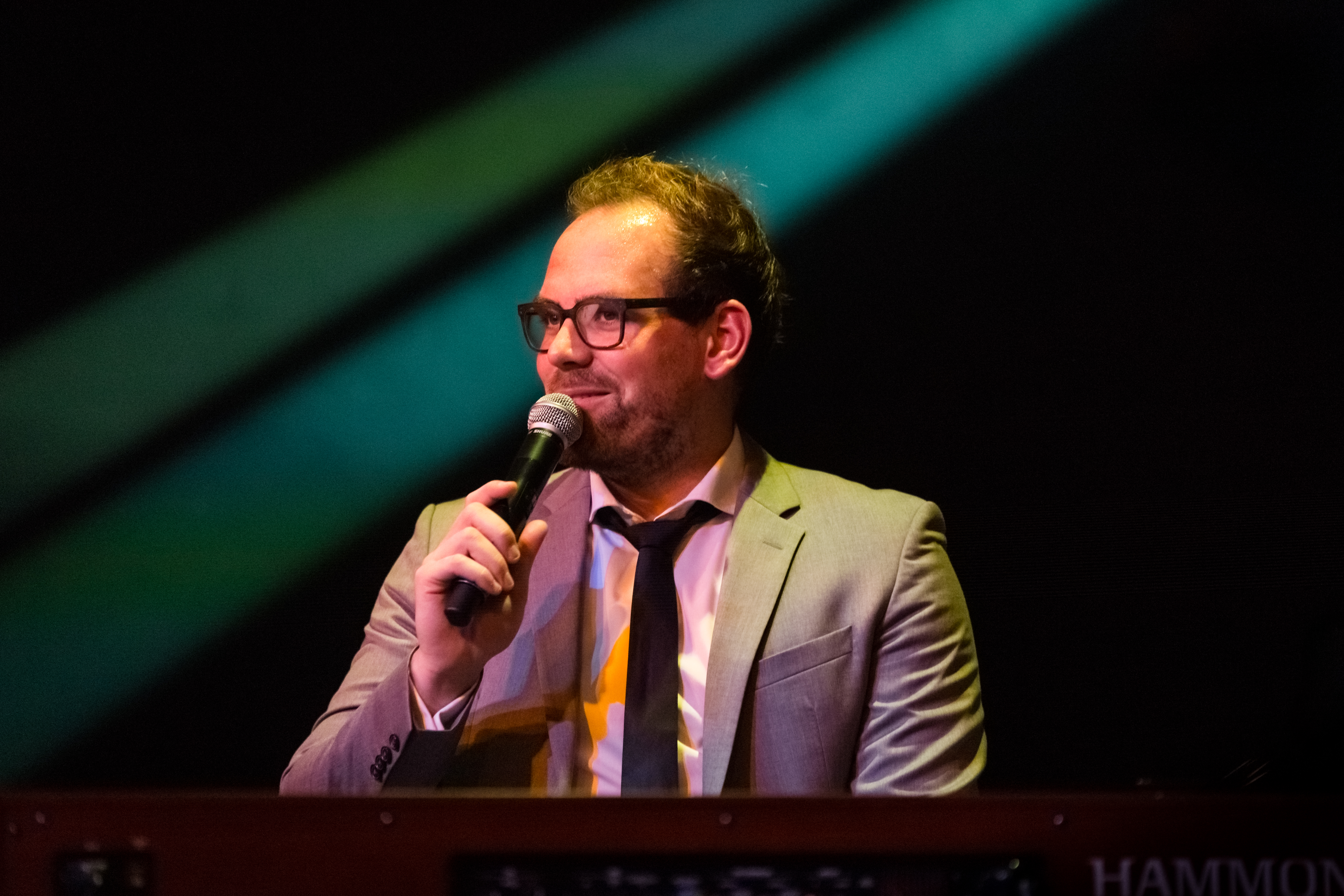 Julian & Roman Wasserfuhr - Leverkusener Jazztage 2017